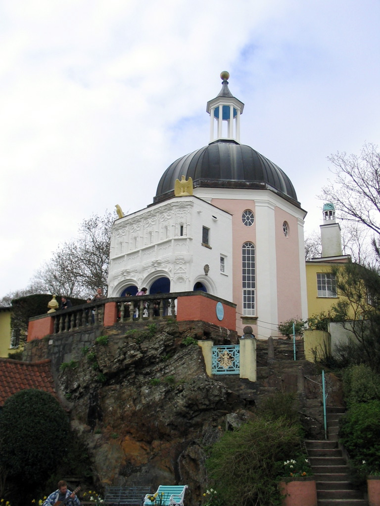 Pantheon at Portmeirion: A bit of architecture at the surreal planned village where The Prisoner was filmed